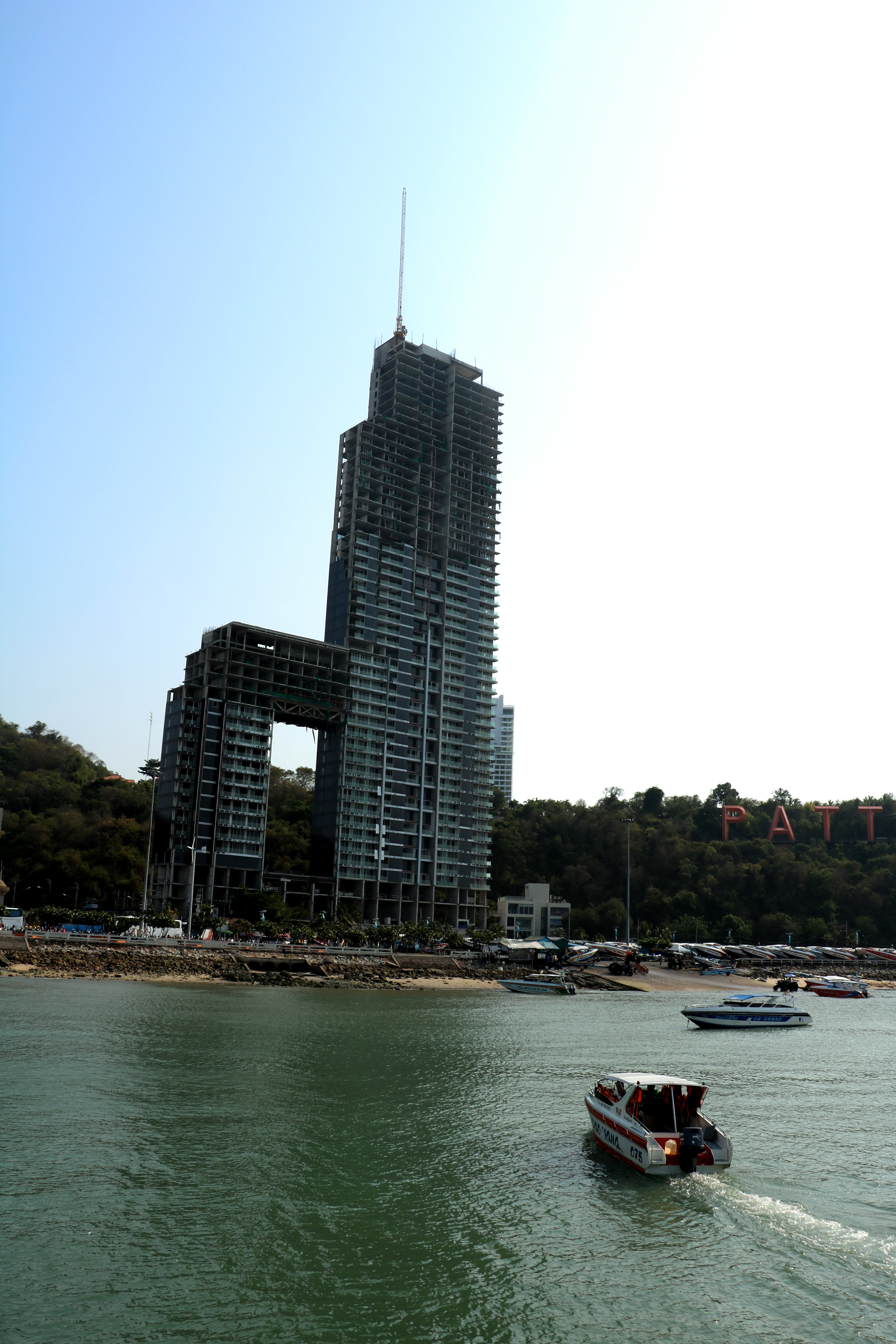 Waterfront Suites & Residences Pattaya